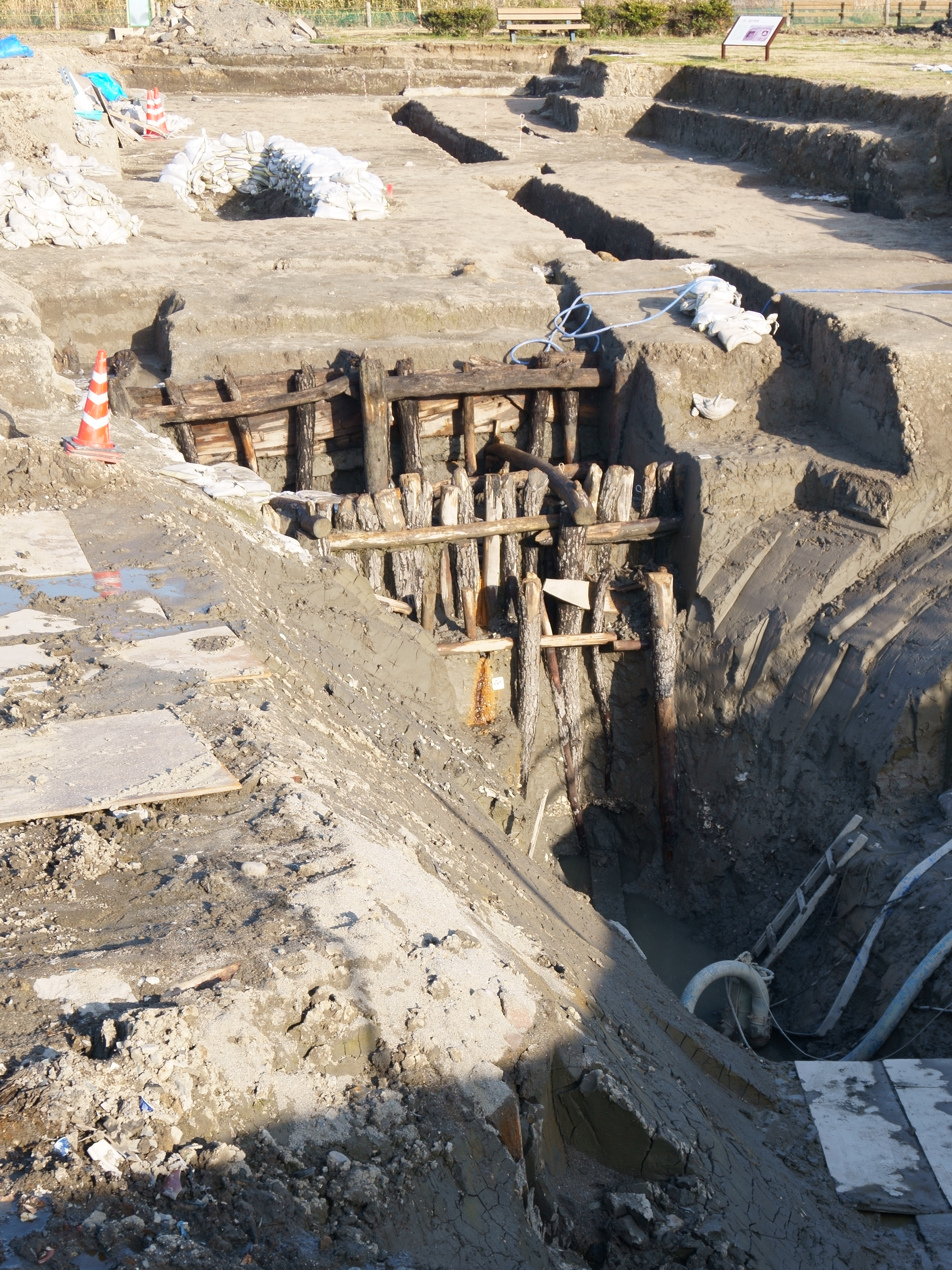 Wooden side wall frames of dry dock in Mietsu Naval Dock site, while the excavation in February 2019.